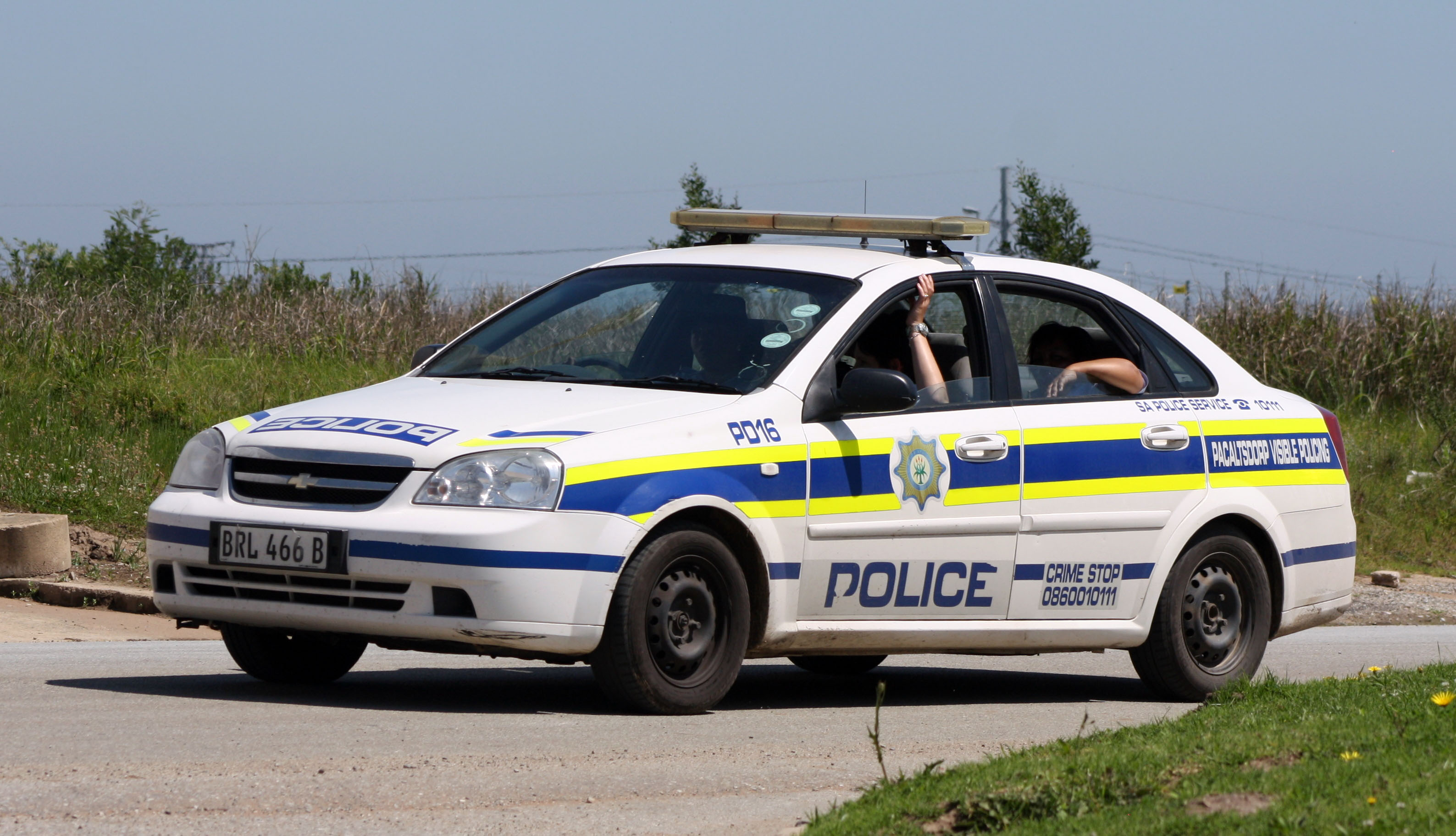 Taking part in the George airport simulated aircraft emergency exercise.